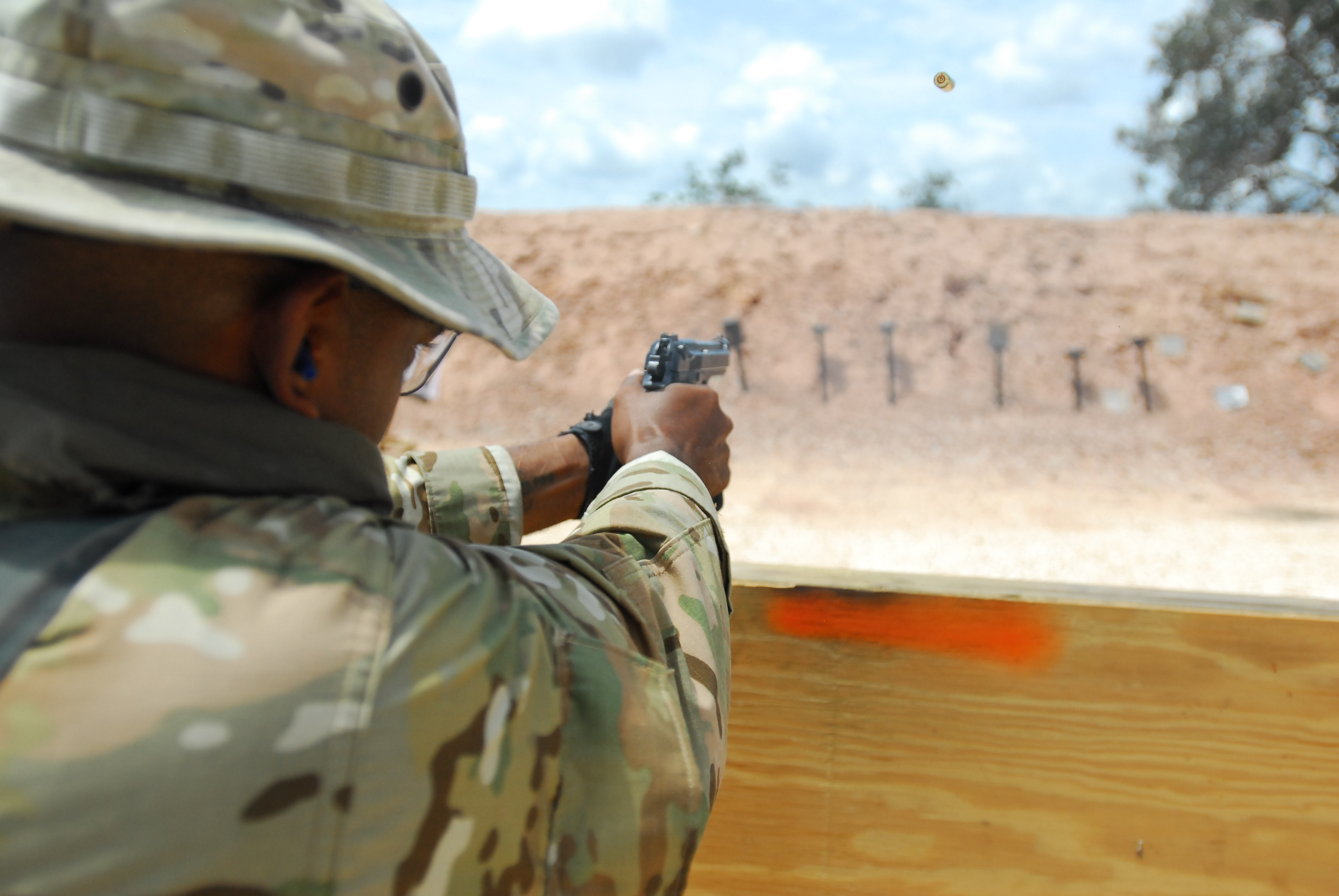 A Belizean soldier assigned to the Belize Special Assignment Group (BSAG) fires his M-9 pistol at a row of mounted steel pop-up plates as part of a speed shoot exercise during a recent advanced marksmanship range session near Belize City, Belize. The timed exercise allows BSAG soldiers to improve on their speed and accuracy as they tried to knock down six steel plates as quickly as possible. Exercises like this are used by members of the Operational Detachment-Alpha, a group of U.S. Special Forces members from the 7th SF Group, to hone the military skills of their Belizean counterparts. The ODA is conducting counter-narcotics training with the Belizean Defence Forces in order to increase their ability to deter trafficking through Belize.